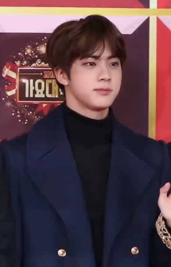 Kim Seok-jin at the KBS Song Festival on December 29, 2016